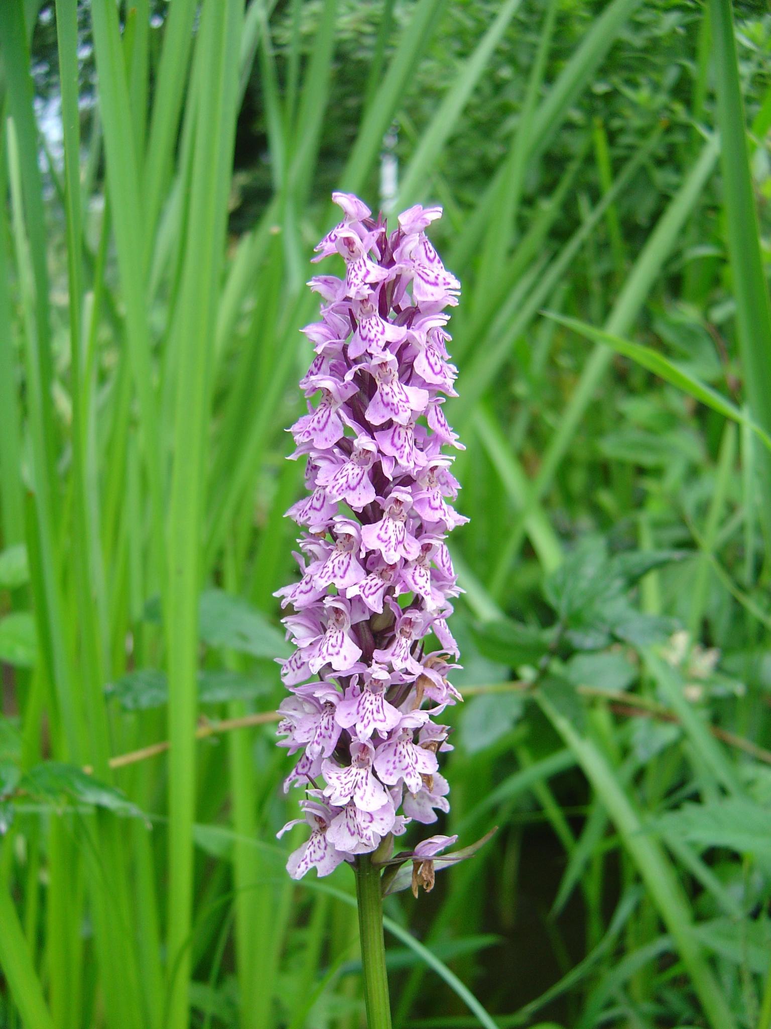 Photograph of a Dactylorhiza hybrid in the botanical garden of Münster, Germany